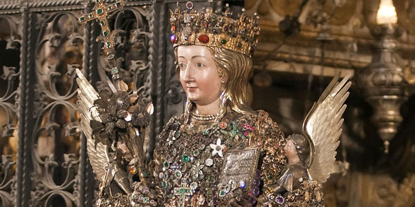 Il busto di sant'Agata